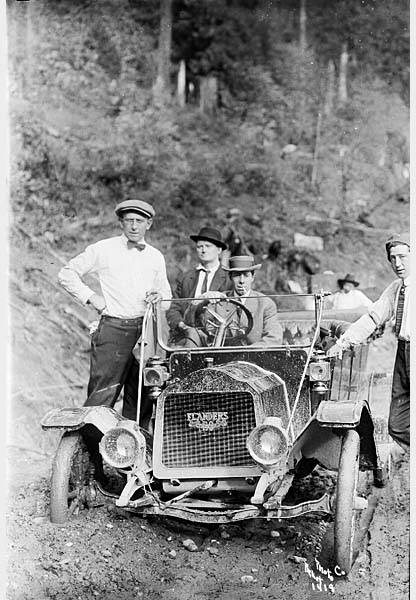 First automobile, a Flanders 20 model, navigating the dirt road from Index to Galena. Accompanying the car were Bailey Hilton, Peter Flanders, James Pennington, D.I. Van Olinda, and Lee PickettCaption on image: Picket Photo Co. 1419 Subjects (LCSH): Flanders automobile; Automobiles--Washington (State)--Index; Galena Road (Wash.); Portraits, Group--Washington (State); Hilton, Bailey; Flanders, Peter; Pennington, James; Van Olinda, D.I.; Pickett, Lee